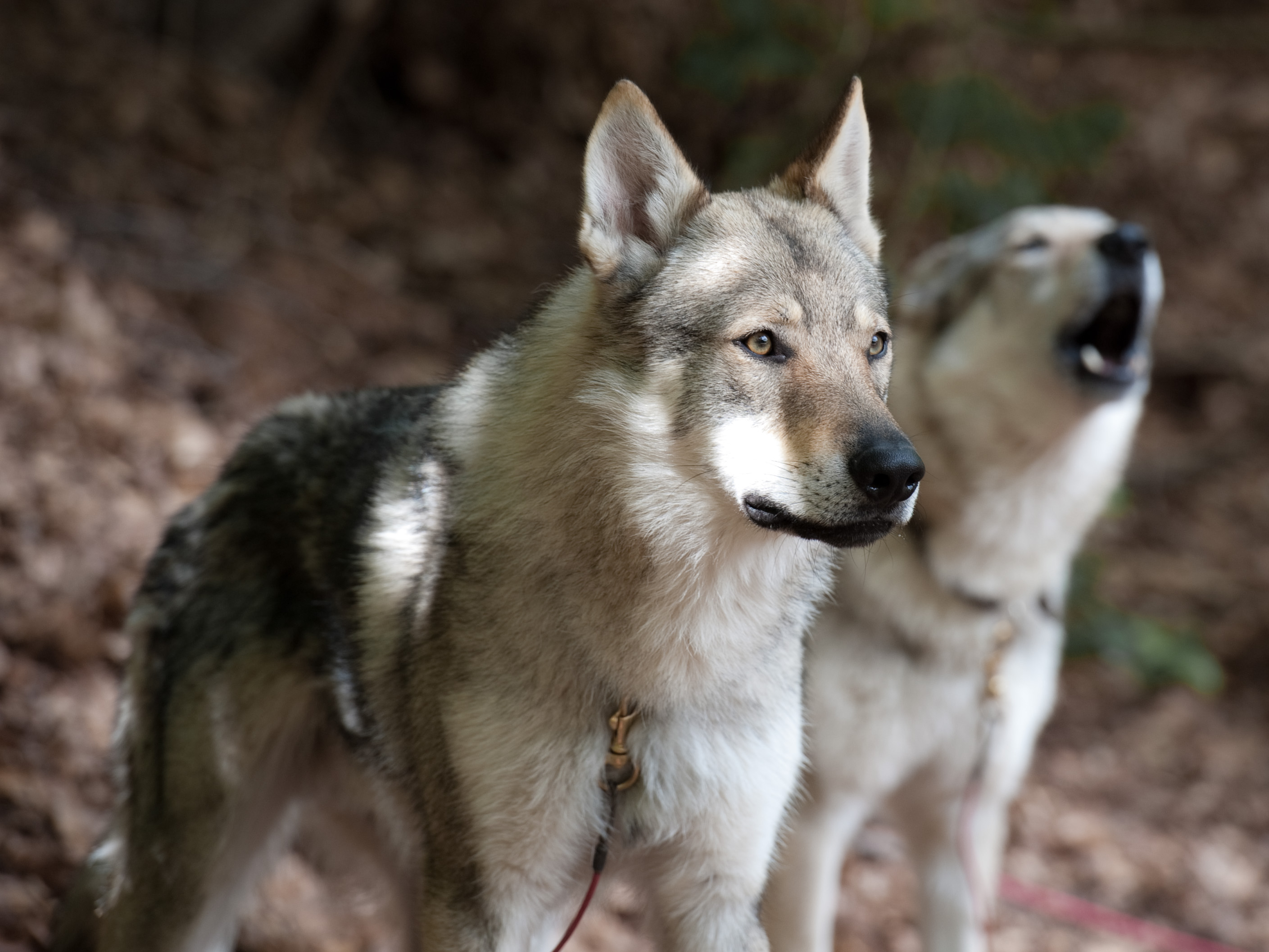 The Czechoslovakian Wolfdog is a relatively new breed of dog from Eastern Europe. It is a cross between a German Shepherd and a Eurasian wolf. It looks mostly like a wolf but behaves like a dog. Until 2008 it was classified a 'Dangerous Wild Animal' in the UK.